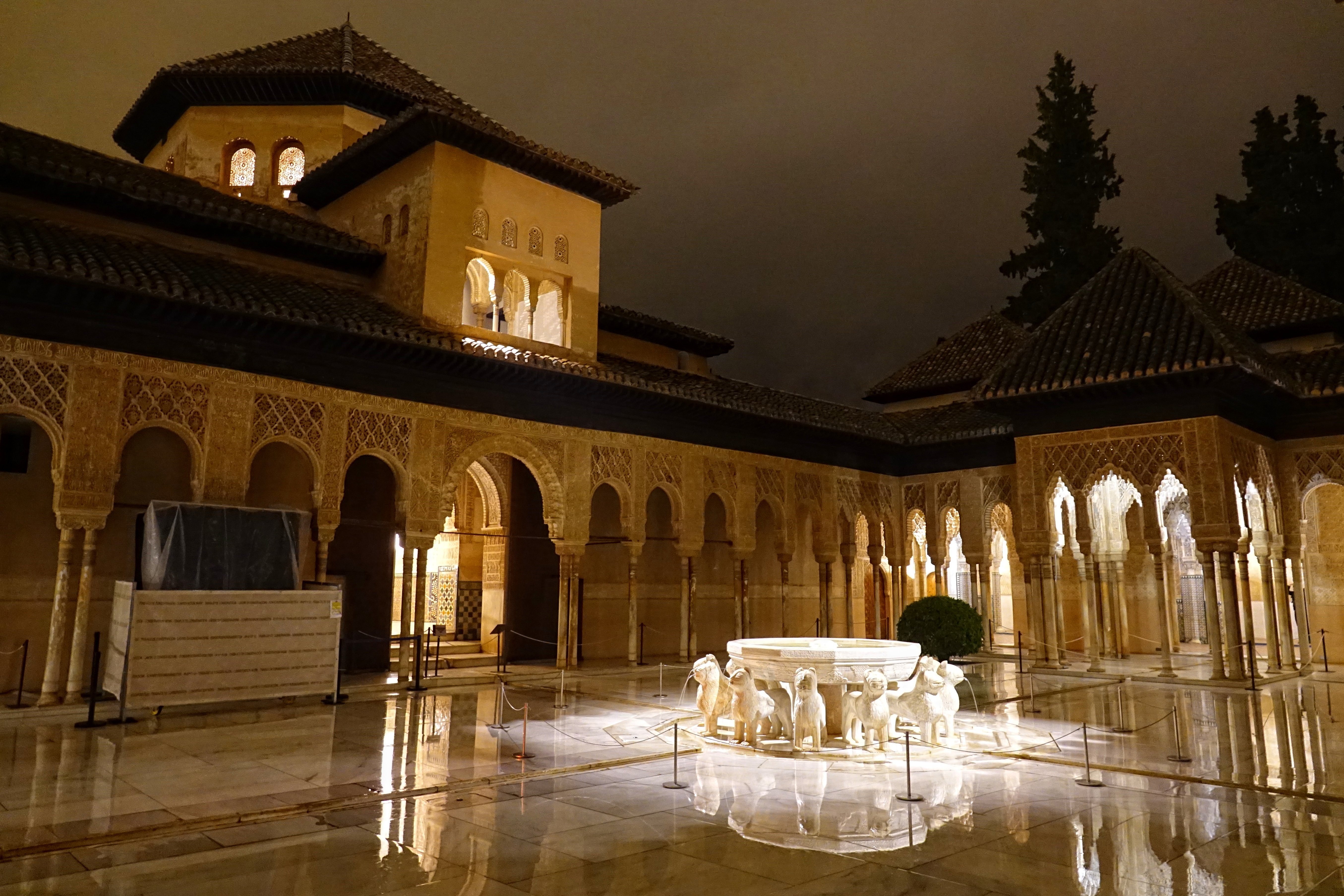 The Court of the Lions is the main courtyard of the Nasrid dynasty Palace of the Lions, in the heart of the Alhambra, the Moorish citadel formed by a complex of palaces, gardens and forts in Granada, Spain